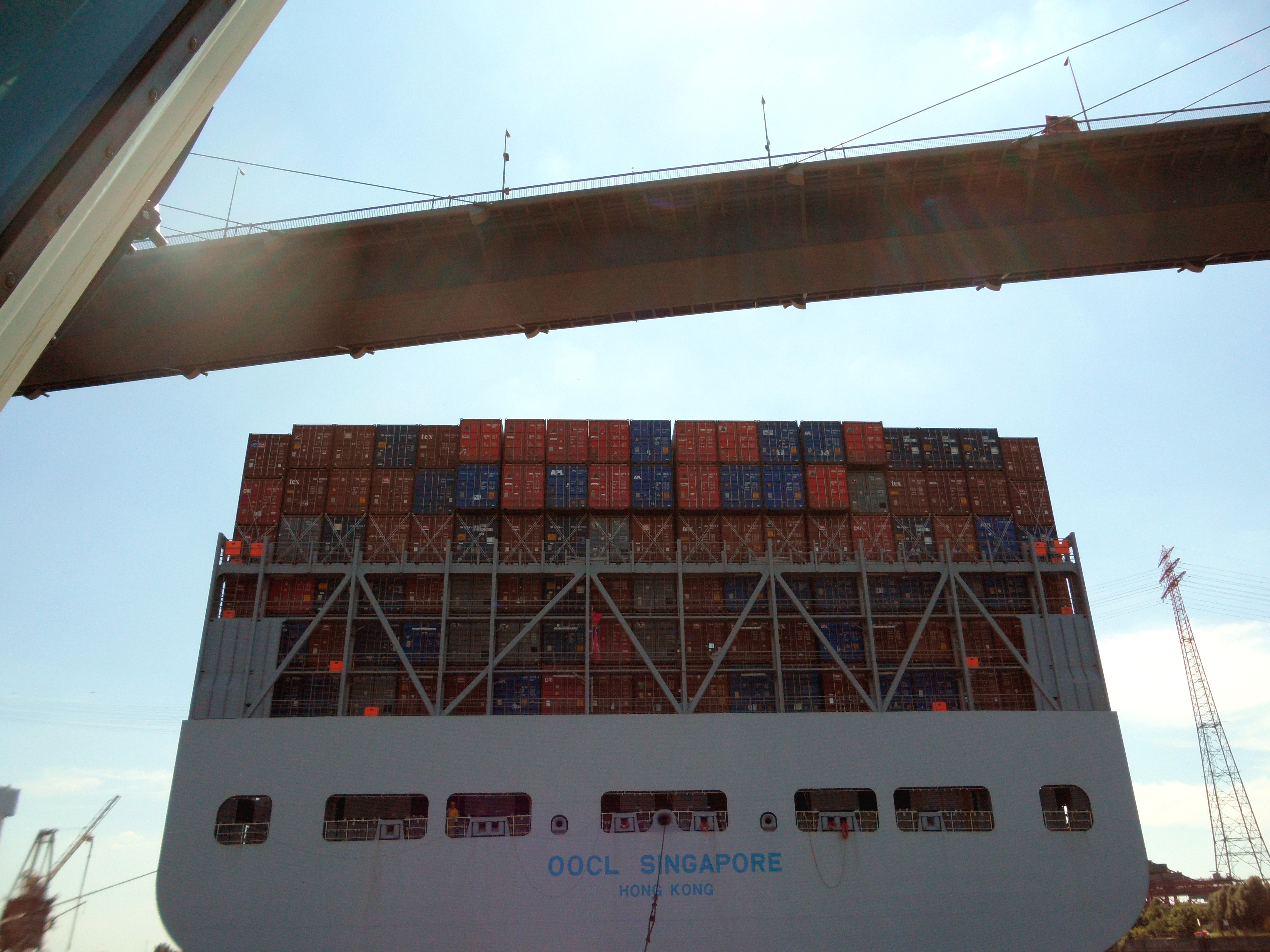 The new container ship OOCL Singapore when passing under the Hamburg Köhlbrandbrücke with target container terminal Altenwerder (CTA) in July 2014